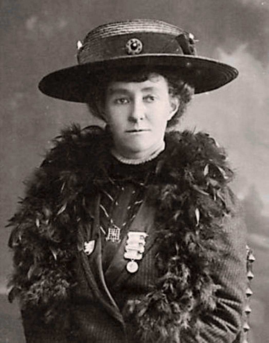 Picture of the English suffragette Emily Davison, date unknown, but c.1910-12